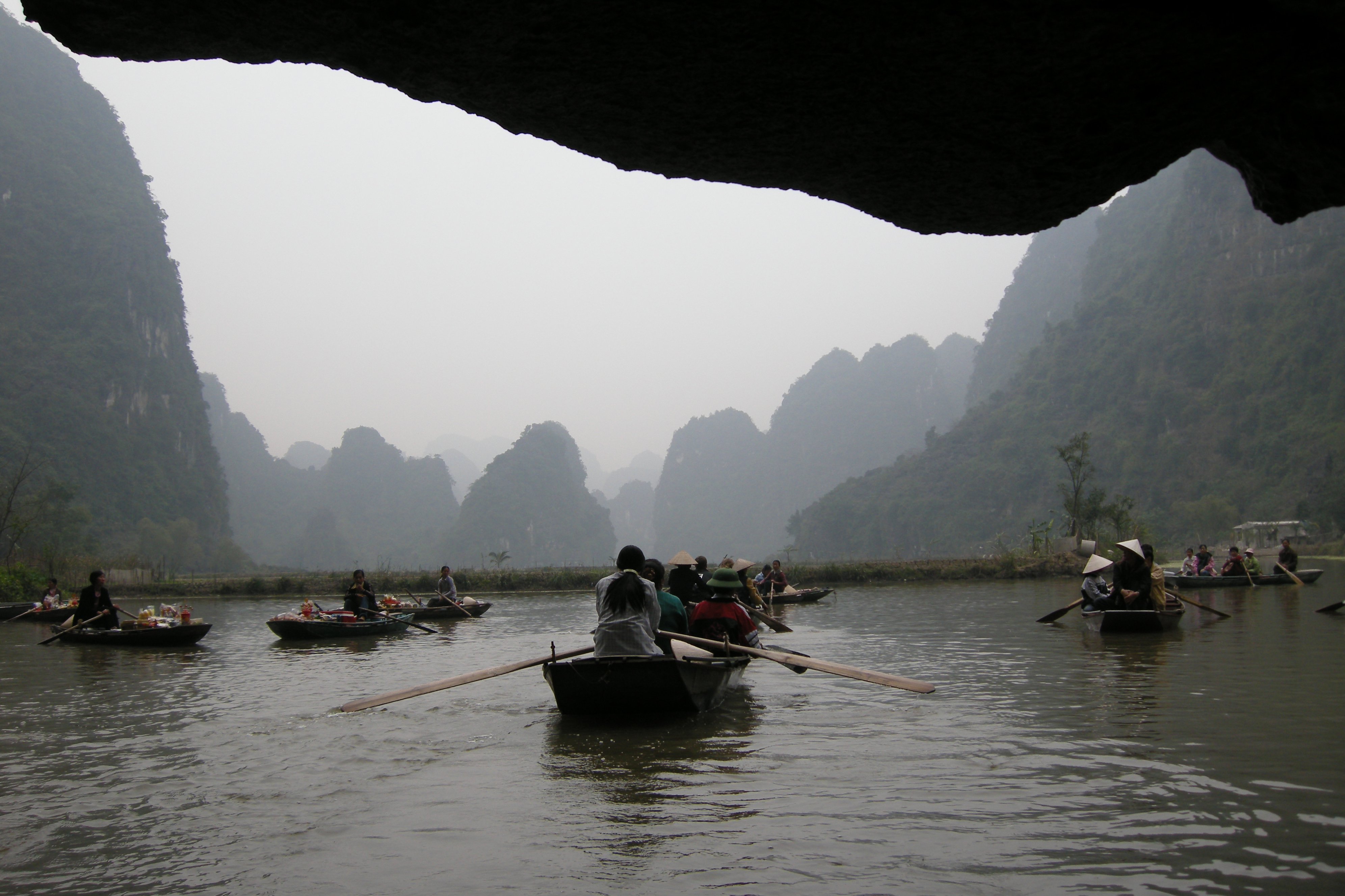 Tràng An scenic area near Ninh Binh, Vietnam with limestone mountains, rivers and wetlands. A UNESCO World Heritage Site since 2014.